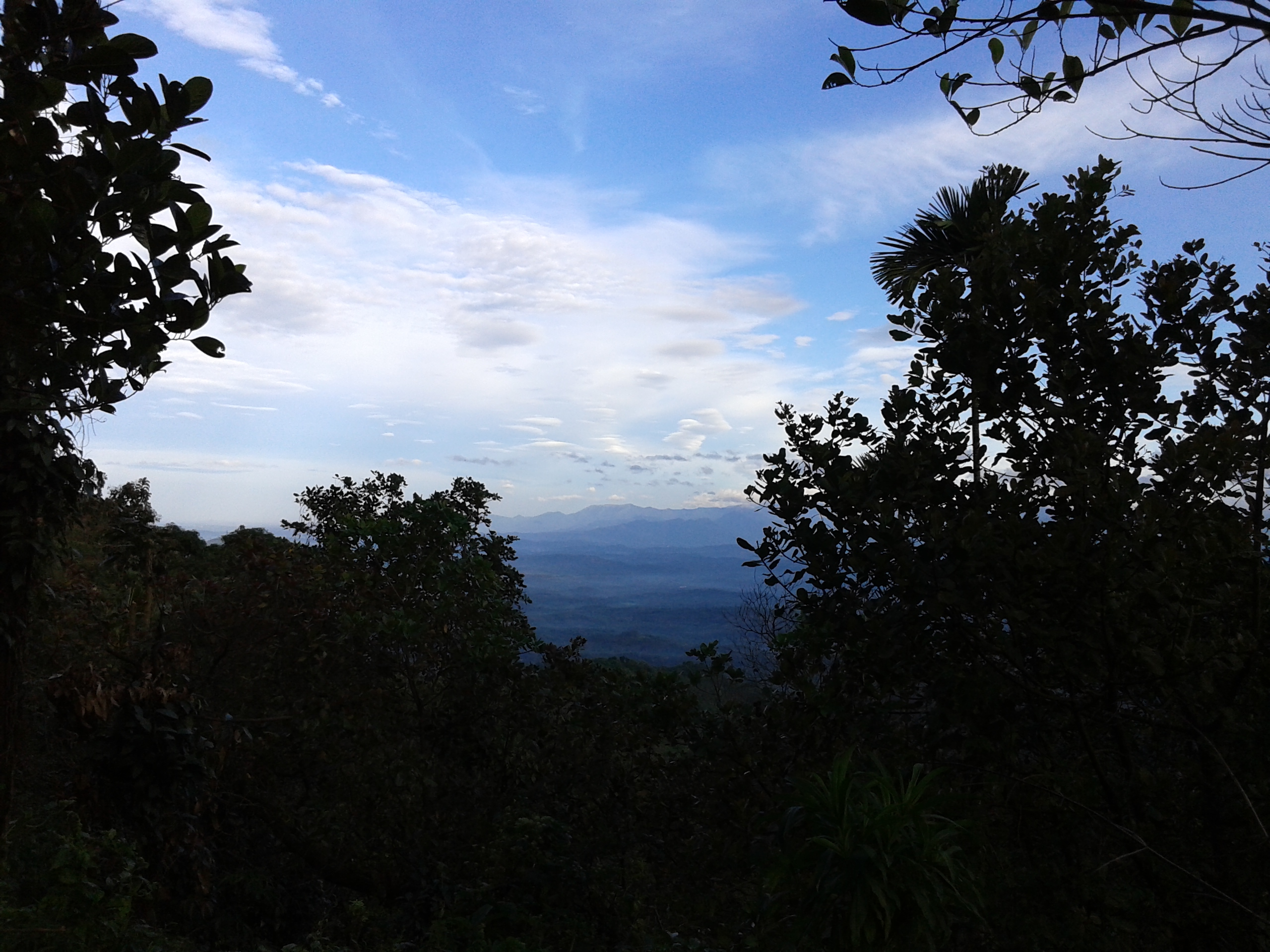 Elapeedika